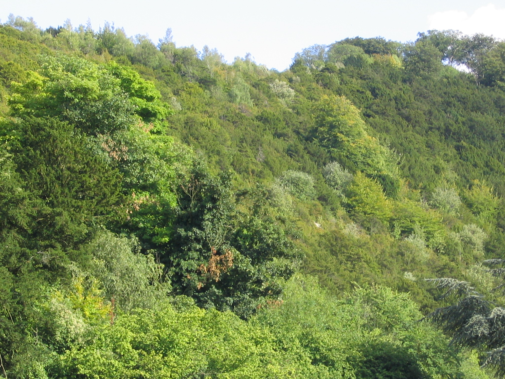 Photograph showing the variety of trees on the side of Box Hill, Surrey, UK